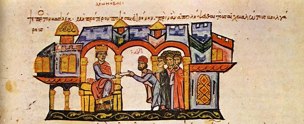 Byzantine emperor Leo VI receives a Bulgarian delegation